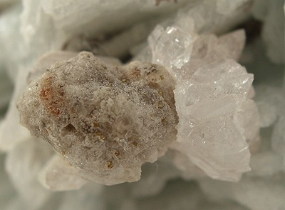 Albite, Stannomicrolite, Stokesite Locality: Urucum mine (Tim mine; Córrego do Urucum pegmatite), Galiléia, Doce valley, Minas Gerais, Southeast Region, Brazil (Locality at ) Size: miniature, 4.1 x 3.3 x 3.0 cm Stokesite with Stannomicrolite on Albite ex. Dr. Mark Feinglos Collection An excellent example of both of these species from an important find brought to market by Carlos Barbosa before he passed away , in the late 1990s. I recall when these came out, it was almost impossible to find even a single specimen with both the Stokesite (the sharp white xls) and the stannomicrolite (brown crystal) on the same specimen - let alone in close proximity. This is an aesthetic representation of both species, in unusual association, on a well trimmed matrix of bladed albite so it displays nicely. Both crystals are of unusually good size for the find, as well.